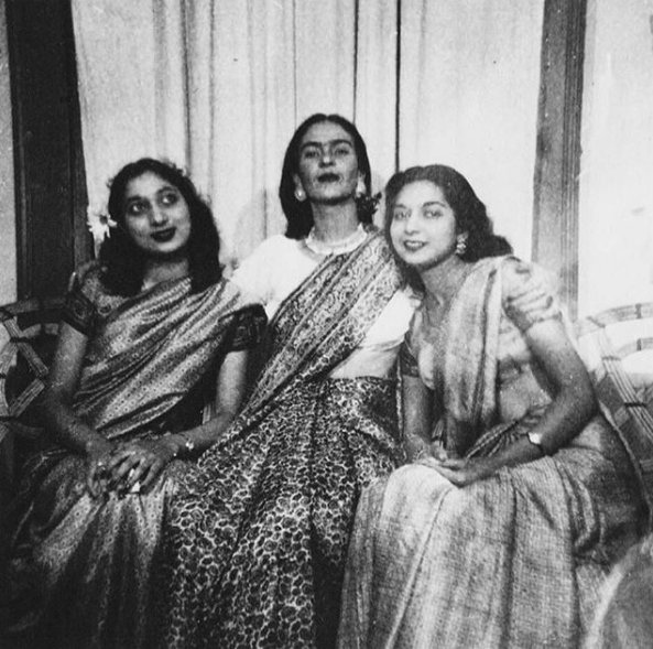 Frida Kahlo, Nayantara Sahgal and Rita Dar in Kahlo's house in Mexico City in 1947